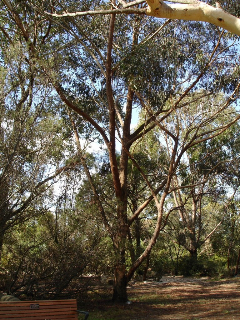 Photographed at Maranoa Gardens, Melbourne, Victoria, Australia by HelloMojo 08:54, 6 April 2007 (UTC)